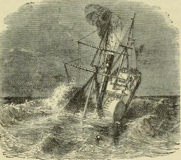 An illustration of the paddle steamer Pegasus sinking on 20 July 1843. Taken from the book Perils of the deep - being an account of some of the remarkable shipwrecks and disasters at sea during the last hundred years by Edward N. Hoare, published by the Society for the Promotion of Christian Knowledge in 1885